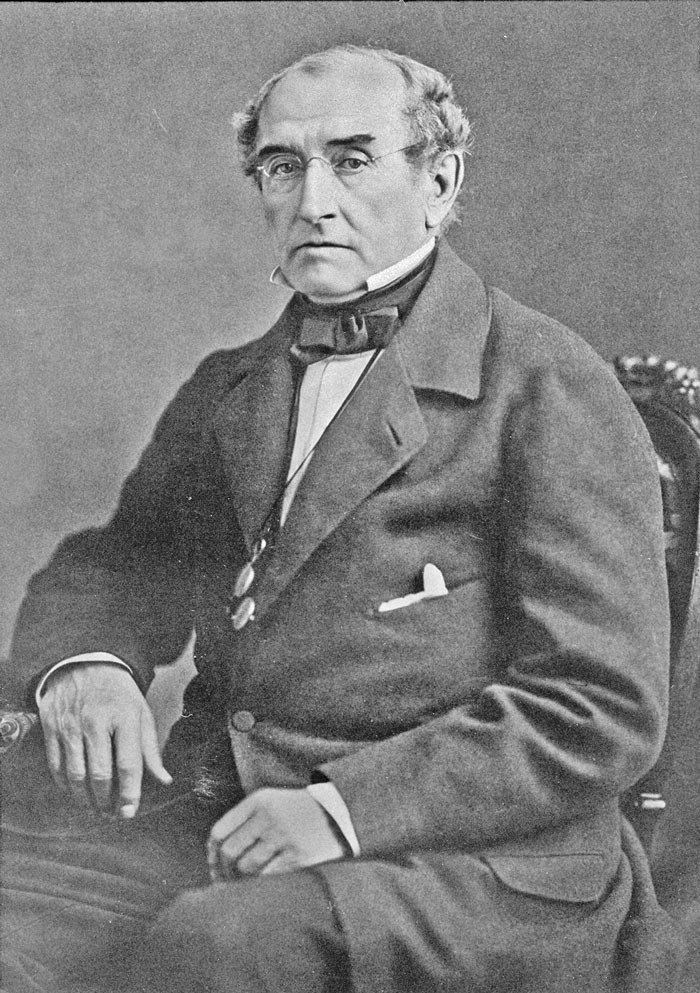 Jacob Le Roy, important in the early history of Le Roy. NY, USA